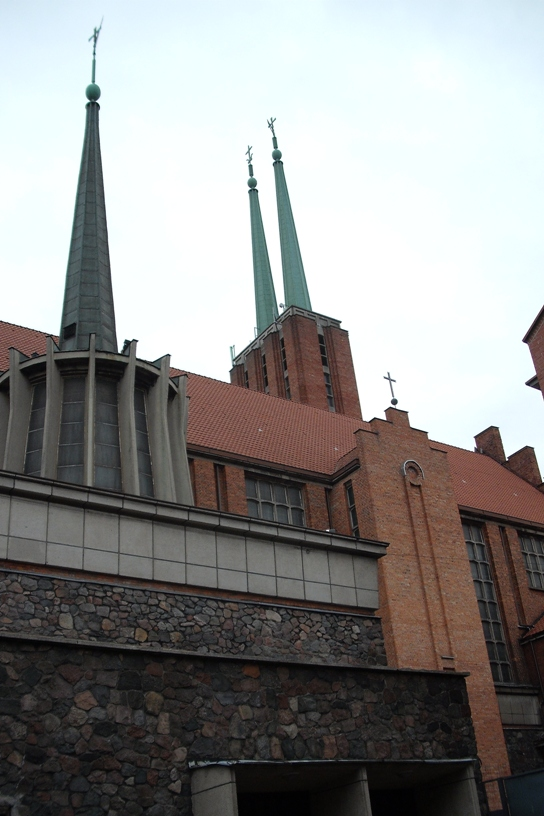 St. Anthony church Gdynia, Western wall and St. Maksymilian Kolbe chapel